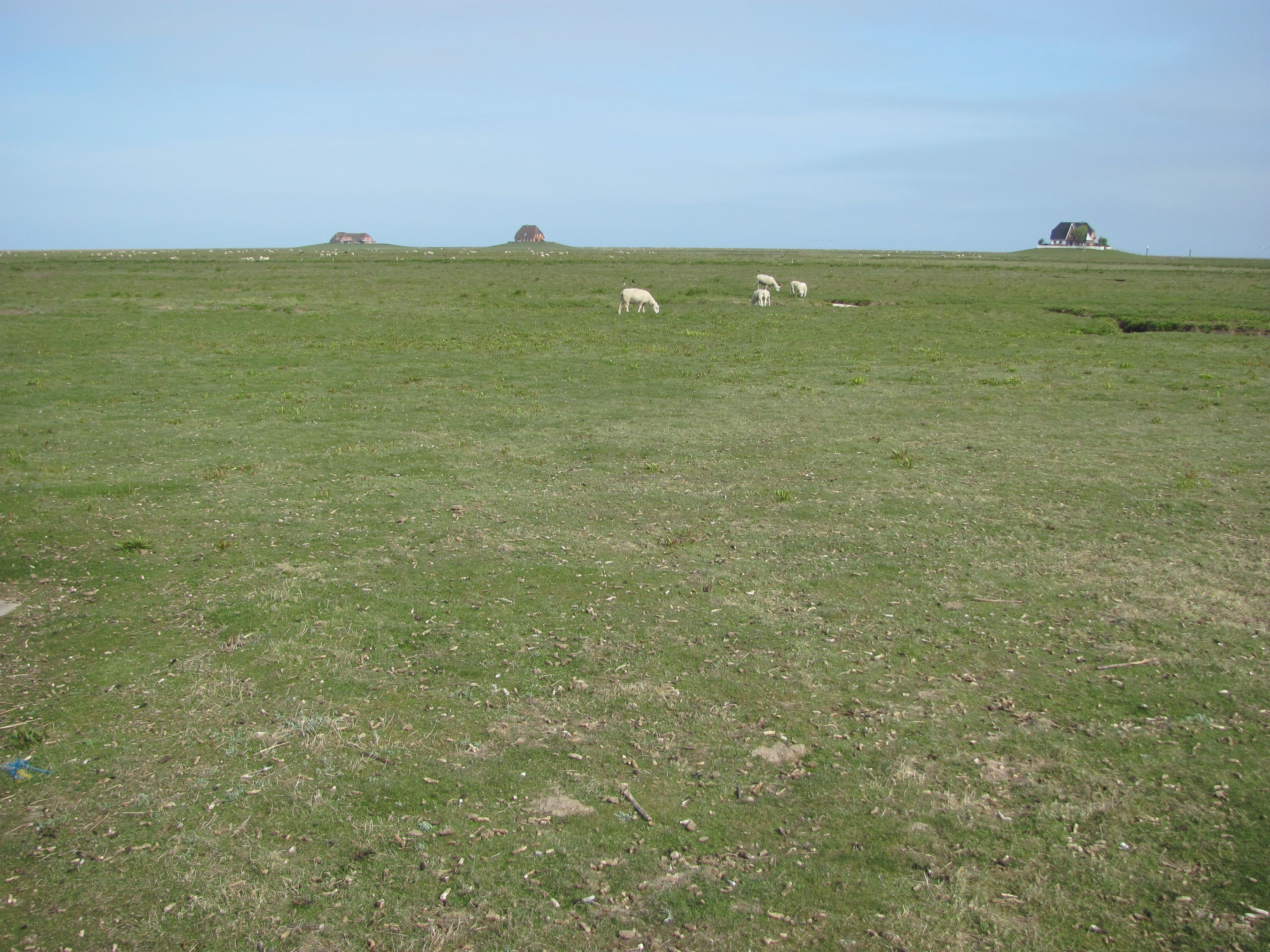 dwelling mounts of Nordenwarft, Halberwegwarft, Schulwarft, Nordstrandischmoor, Germany